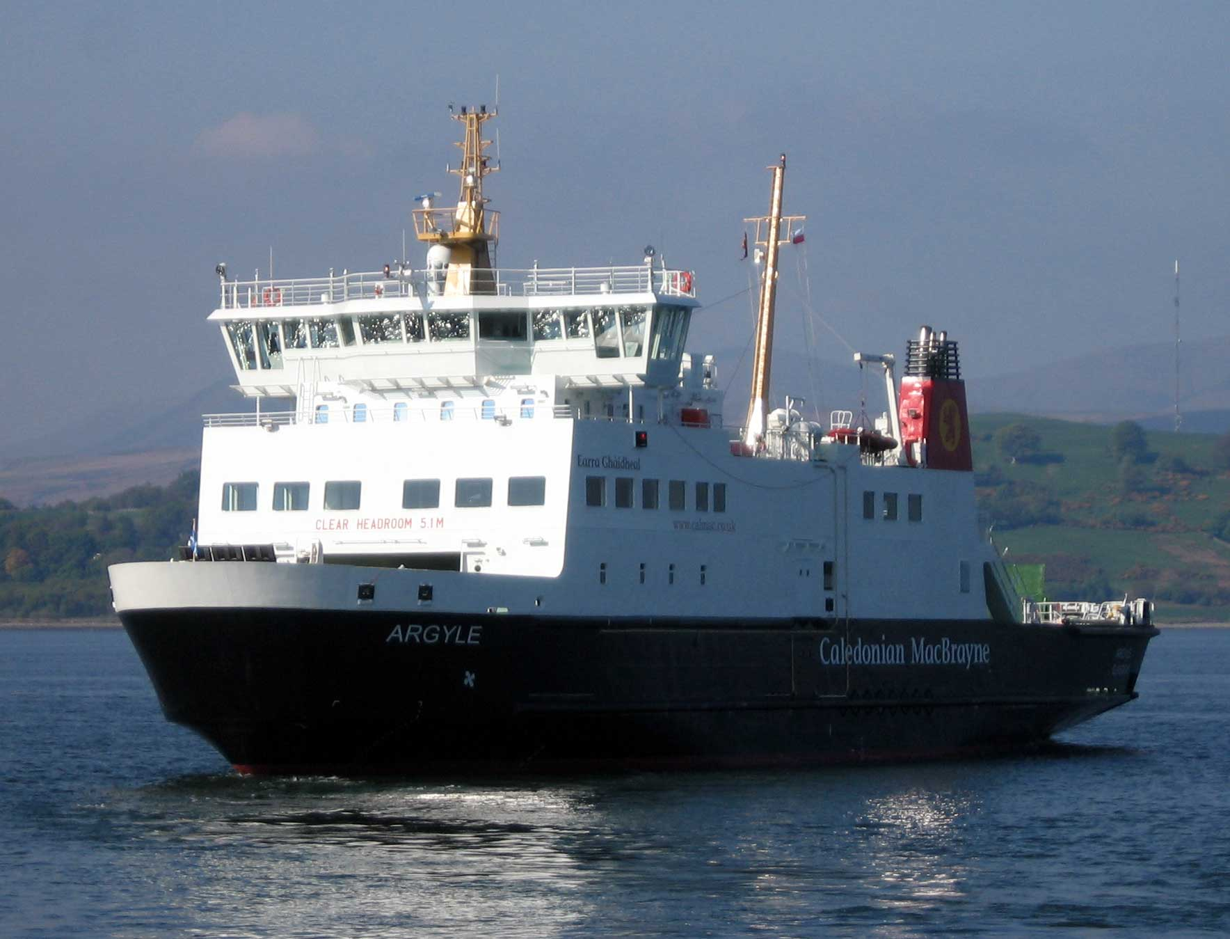 The Caledonian MacBrayne ferry MV Argyle off Gourock pierhead before entering service.